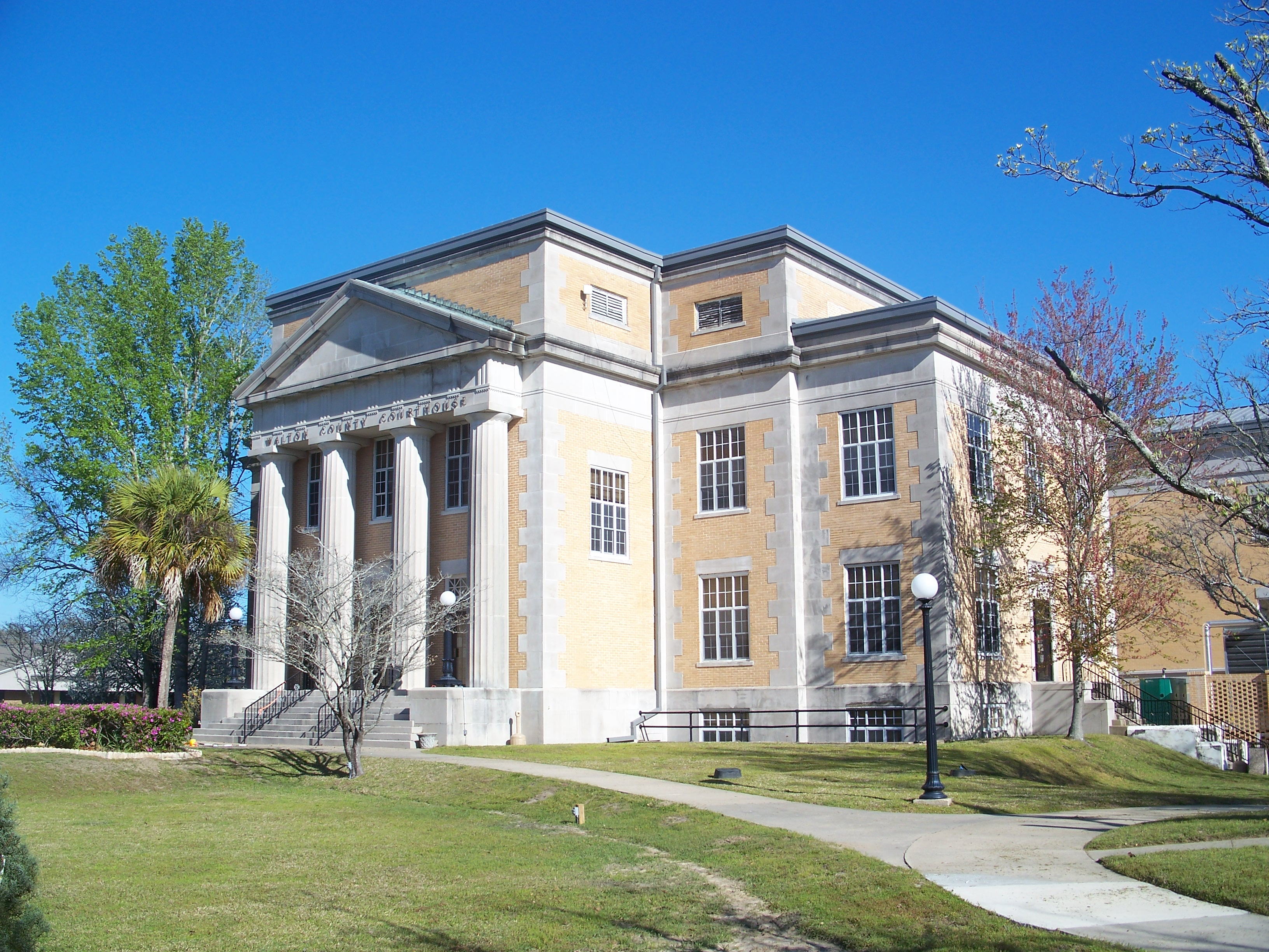 DeFuniak Springs, Florida: DeFuniak Springs Historic District: Walton County Courthouse.